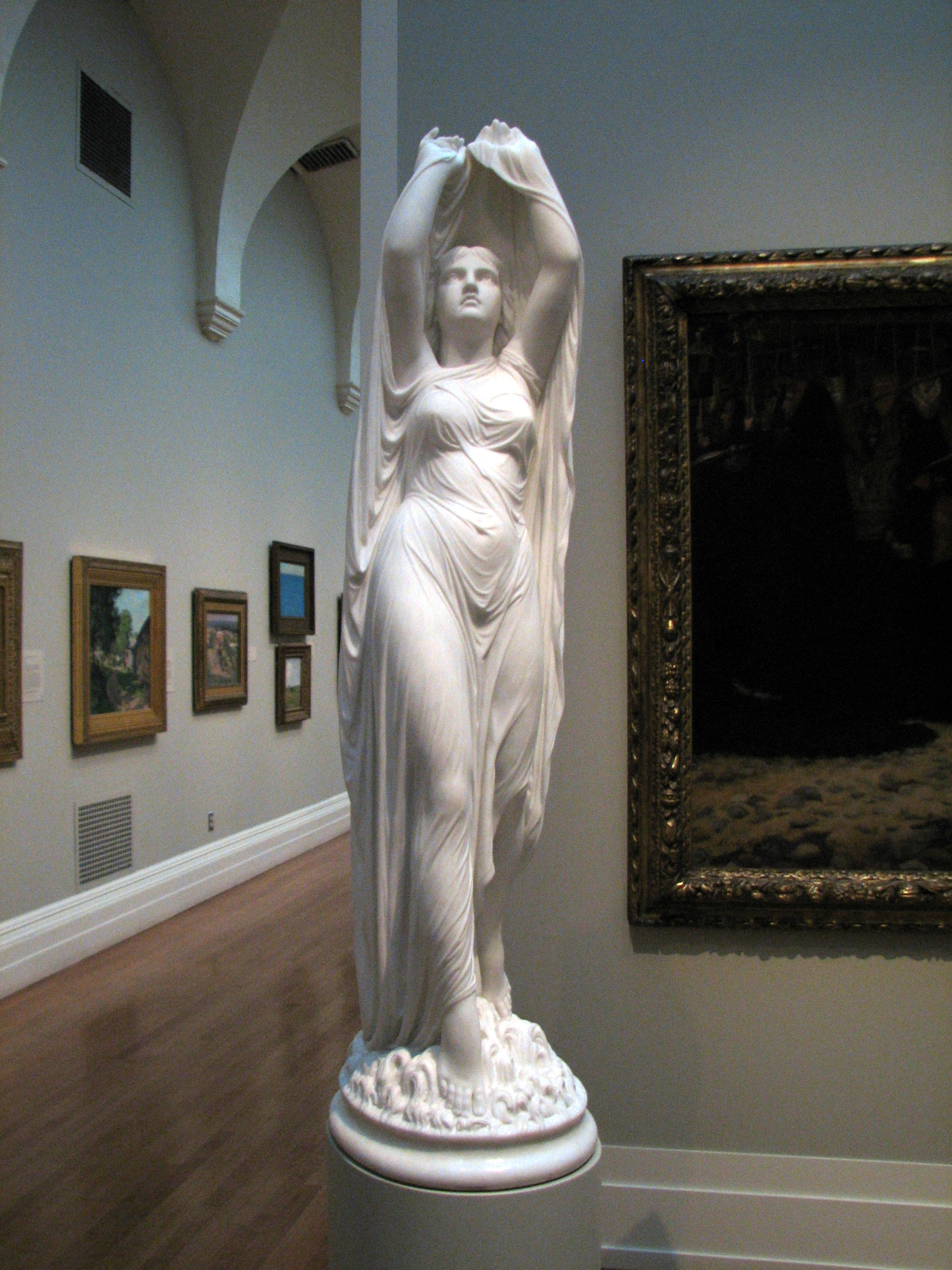 Undine Rising from the Waters, ca. 1880–1882, by Chauncey Bradley Ives (1810–1894), in the Yale University Art Gallery. See also Image:Undine_Rising_from_the_Waters,_back.jpg.